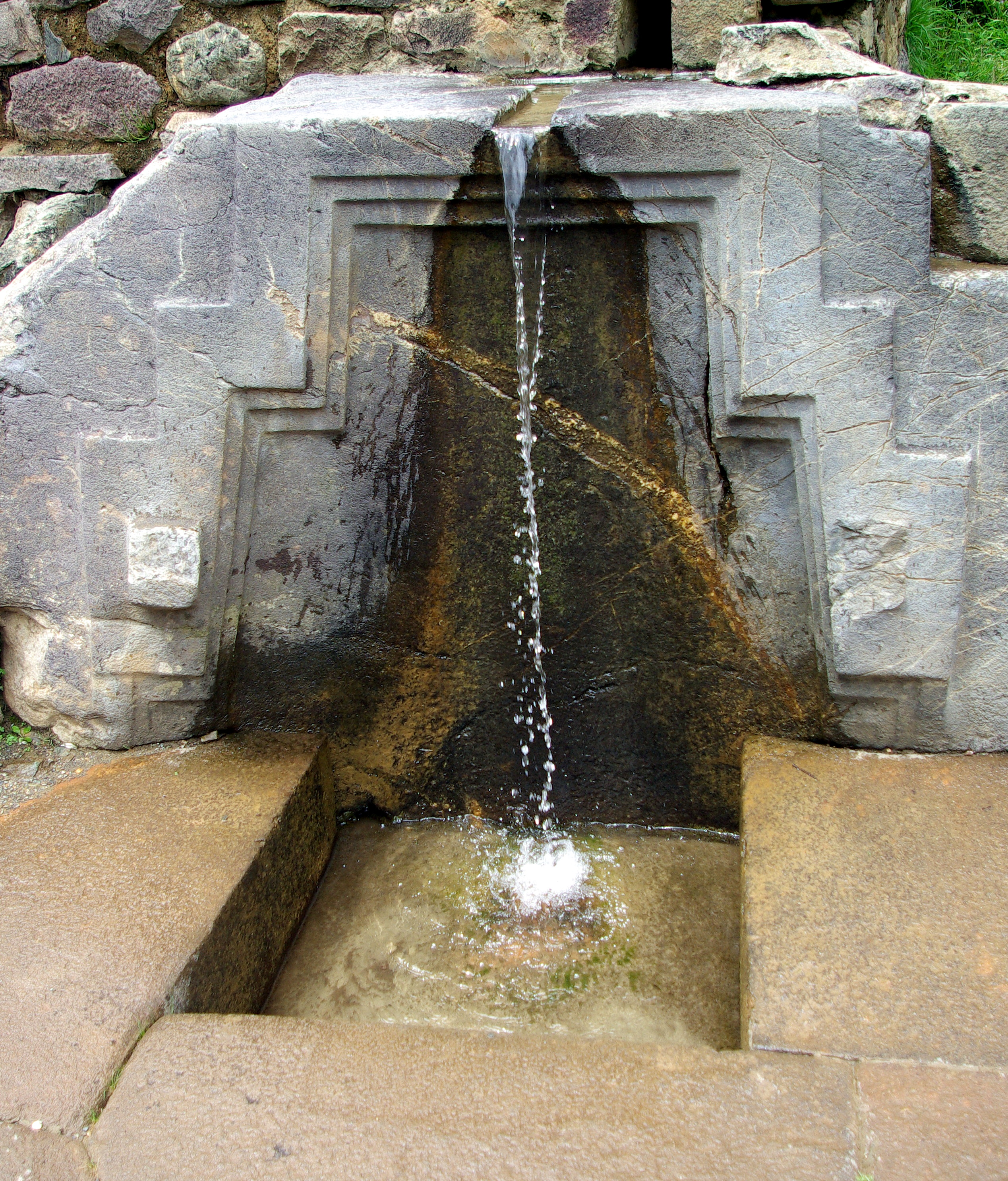 The "bath of the princess" (bano de la nusta), at the base of the ruins of Ollantaytambo.